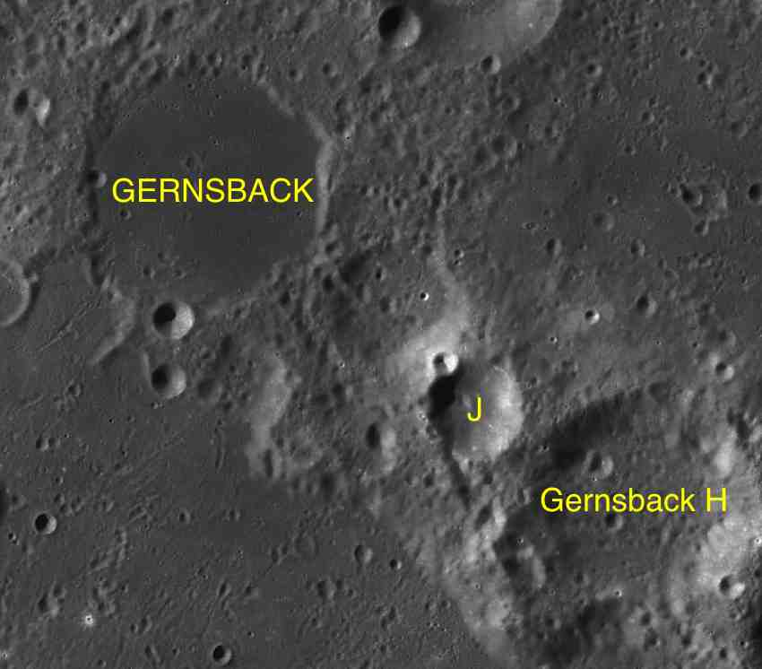 Part of the chart LAC-116 used for the presentation